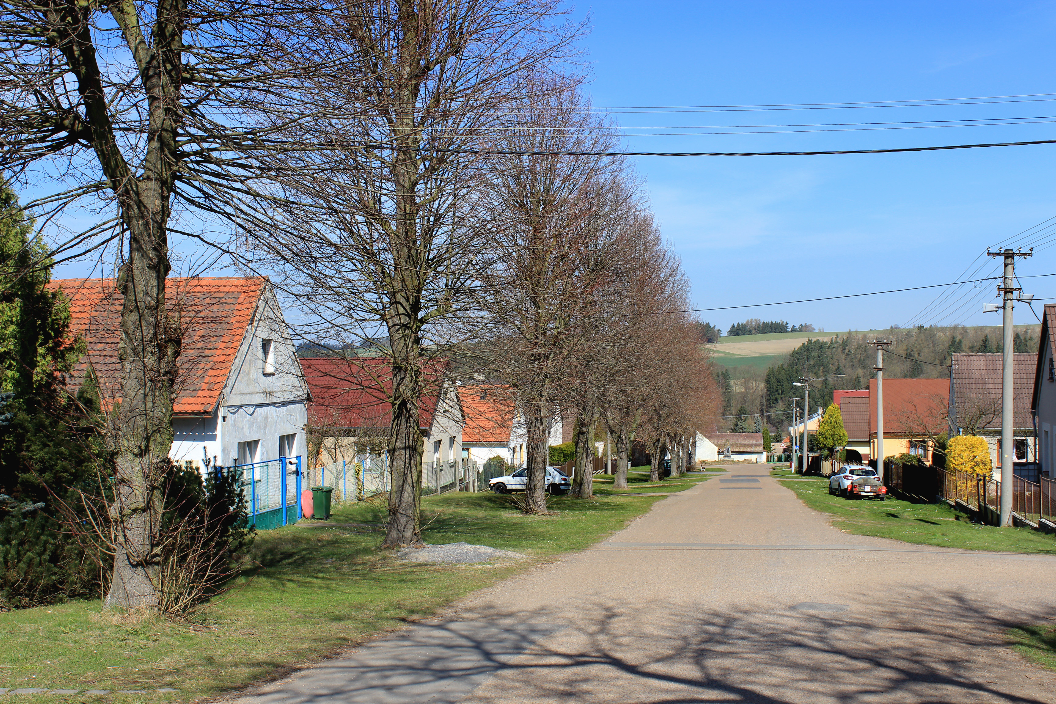 South part of Všenice, Czech Republic.